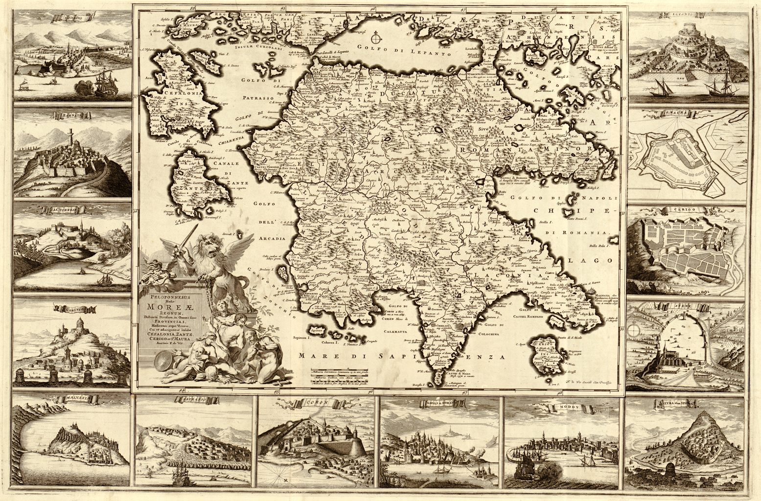 This late-17th century map by the Dutch engraver, publisher, and map seller Frederick de Wit (1629 or 1630-1706) shows the Peloponnesian Peninsula of Greece. The outer margins contain views of 14 fortified towns, the names of which are given in Italian. The illustration at the lower left shows a lion with enslaved human figures in an embellished cartouche with title. At the time the map was made, Greece was under the rule of the Ottoman Empire. The Ottomans allowed religious freedom to the Christians of Greece, but not full equality or political rights. De Wit was born in Gouda and moved to Amsterdam, where he maintained his shop on the Kalverstraat. His works included sea and world atlases, wall maps, and town books containing plans of Dutch and European cities. Some time after 1674 he acquired the copper plates of town books by Jansonnius and Blaeu. In 1688, he obtained from the States General, the Dutch government of the day, the privilege to publish his maps. De Wit’s maps were in demand throughout Europe and were sold until 1763 by the firm of Johannes Covens and Corneille Mortier. Cephalonia Island (Greece); Kythēra Island (Greece); Lefkas Island (Greece); Peloponnesus (Greece); Zakynthos (Greece: Nome)